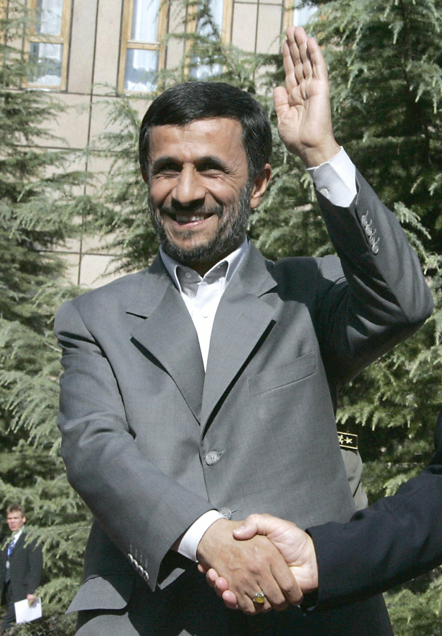 TEHRAN. President of Iran, Mahmoud Ahmadinejad.